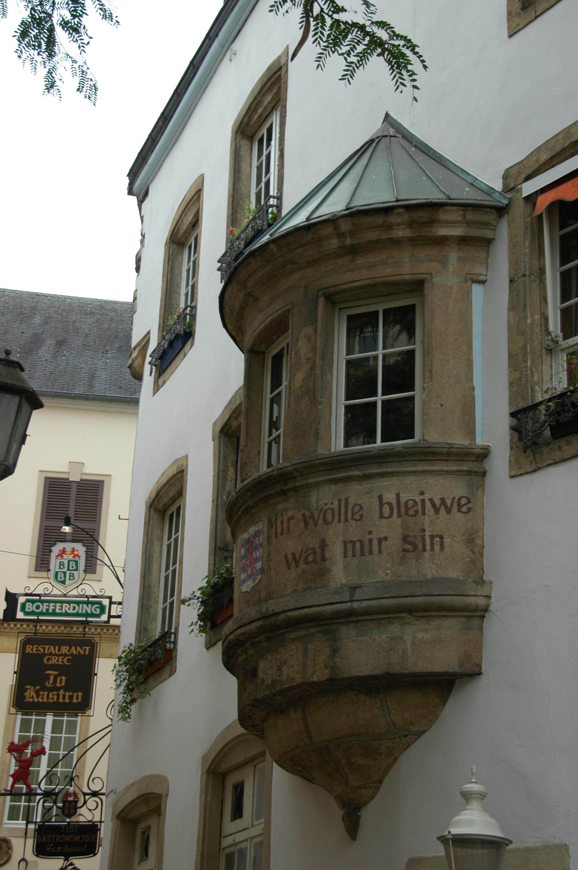 Motto of Luxembourg, painted on a Bay window near the Bockfelsen. The text including the part on the left side of the Bay window: "Roude Le'w waach" and "Mir wölle bleiwe wat mir sin" (Red Lion be attentively - We want to remain what we are).